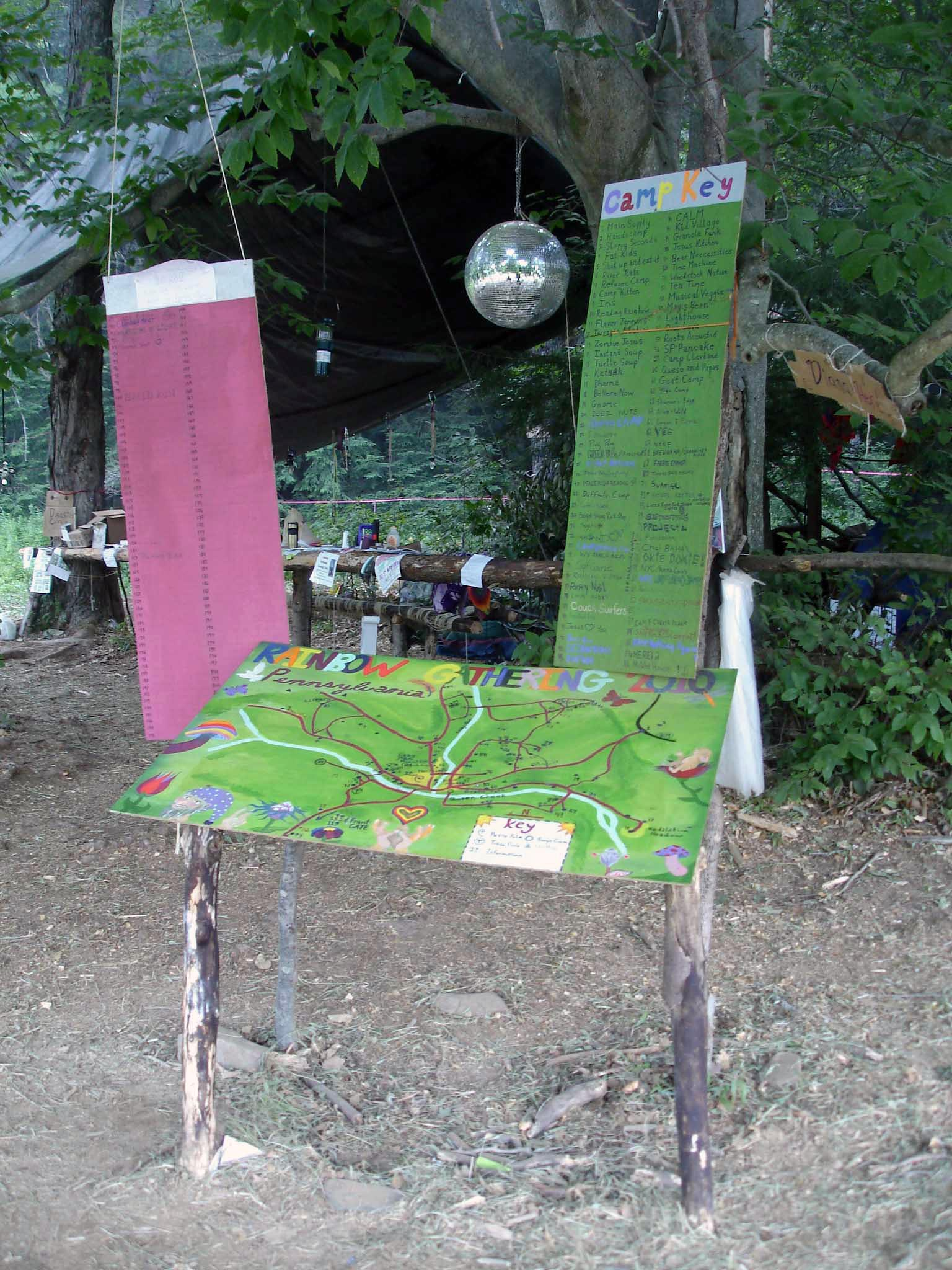 A map and camp key of the 2010 Rainbow Gathering in Pennsylvania.